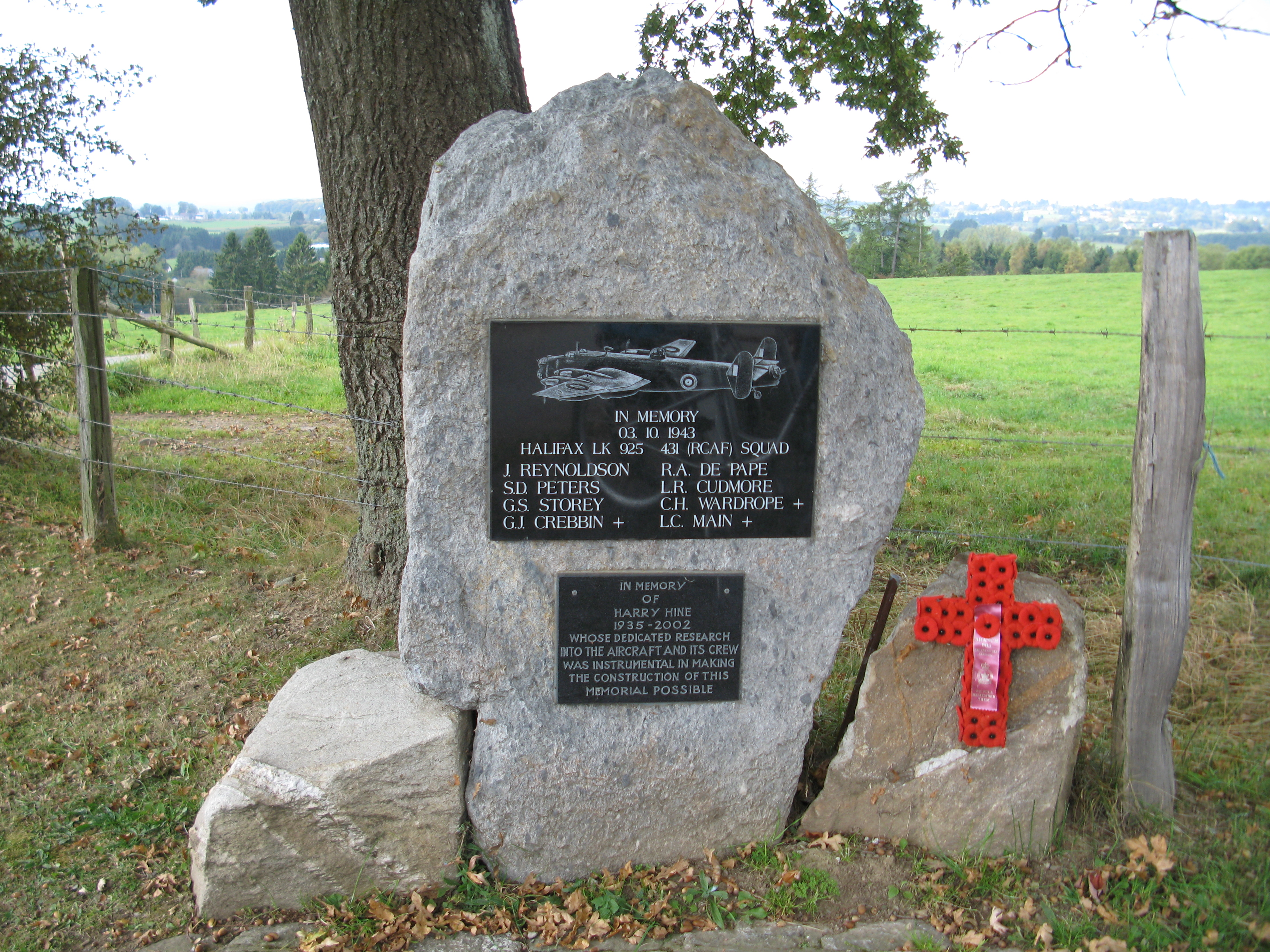 Halifax-Memorial in Neundorf (Saint-Vith) Belgium